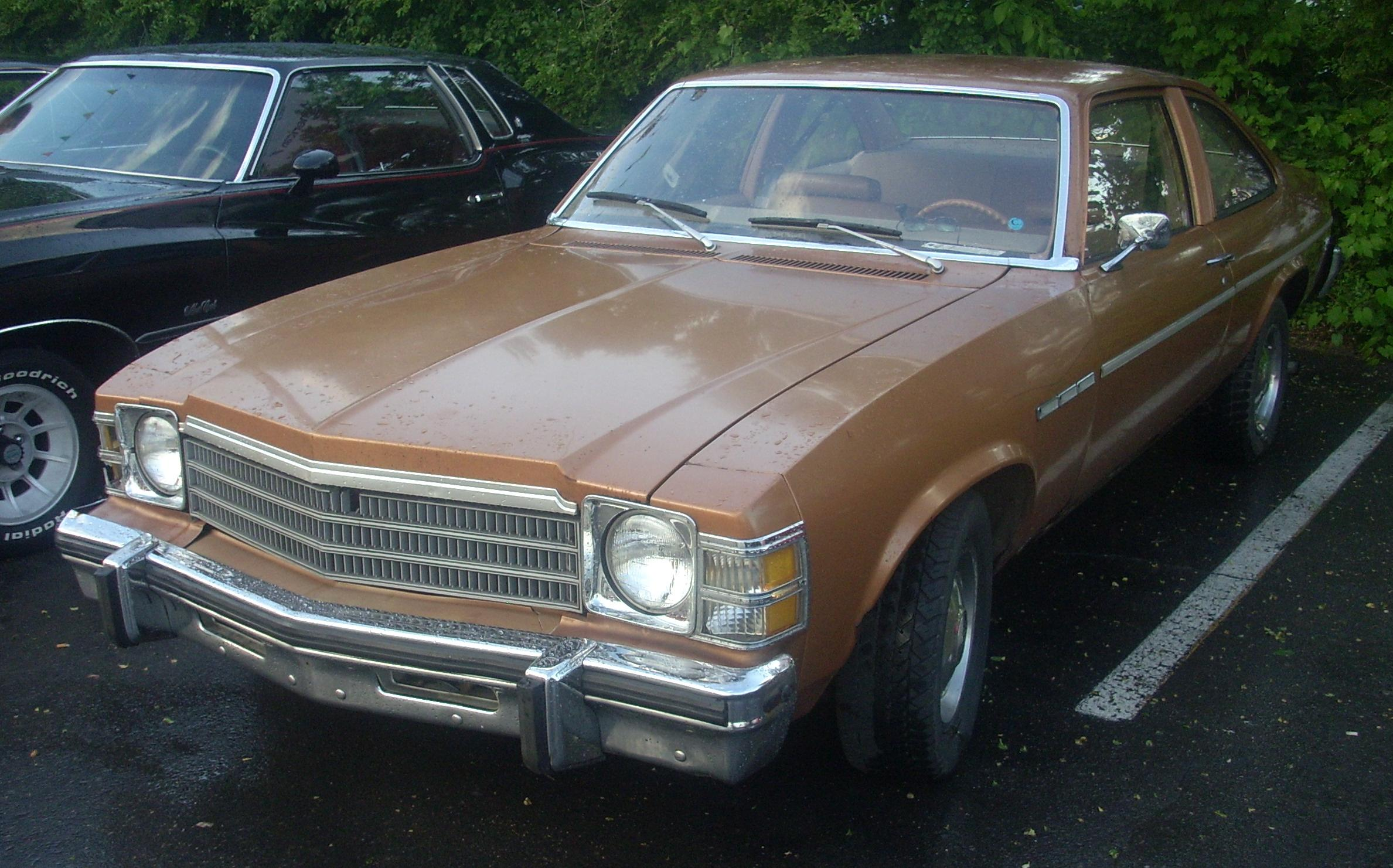 Buick Skylark photographed in Montreal, Quebec, Canada at Gibeau Orange Julep.